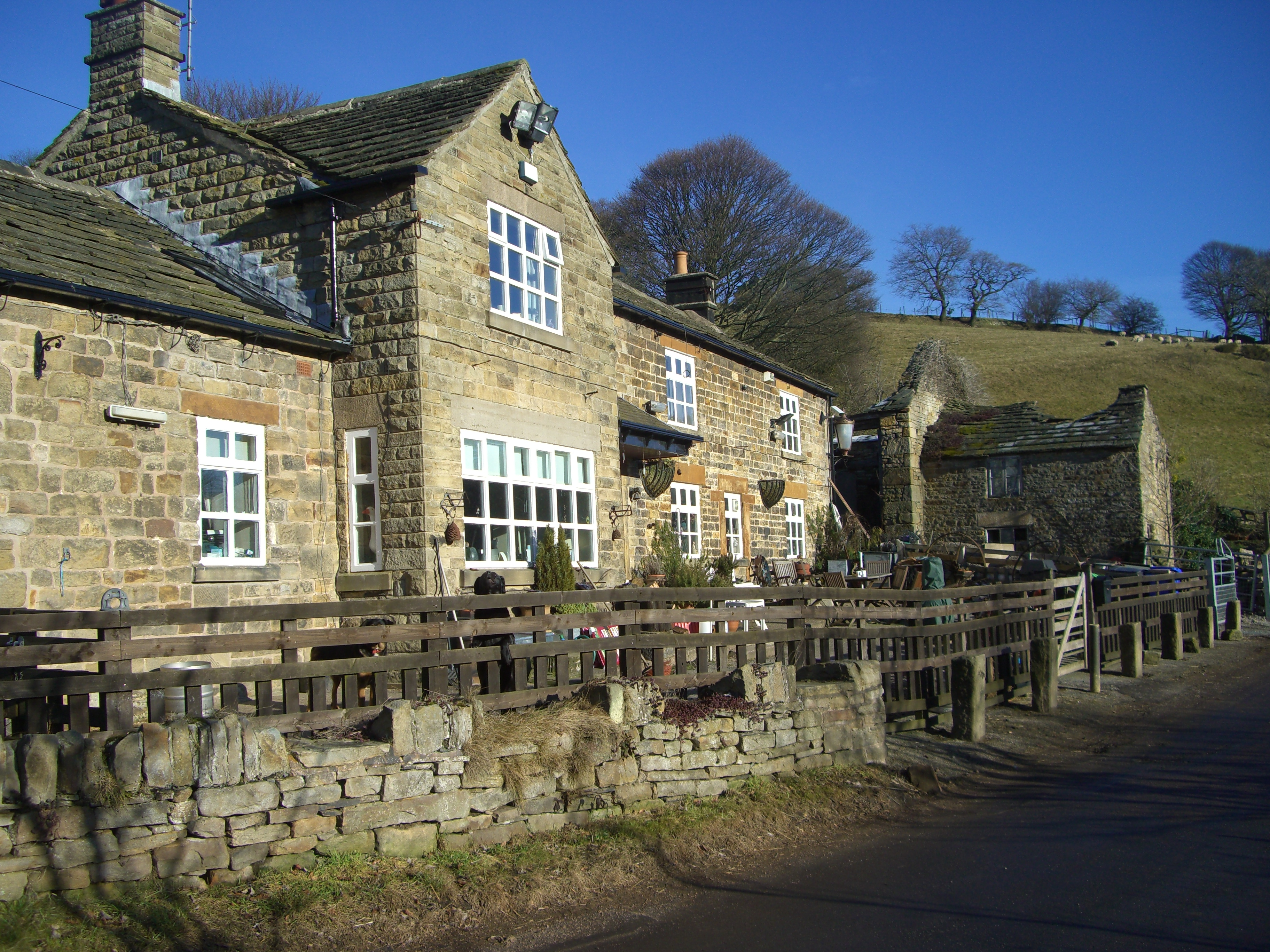 Haychatter House In Bradfield Dale, South Yorkshire, England. An ancient farm building / public house, which is now a private residence.